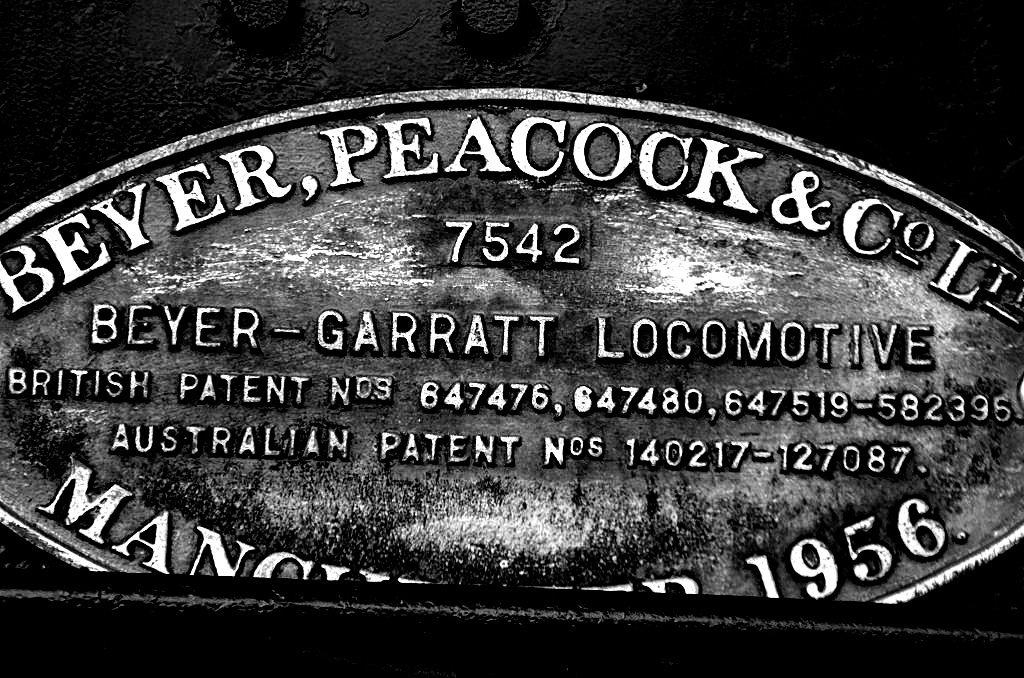 NSWGR AD60 Class Locomotive 6040 Makers Plate